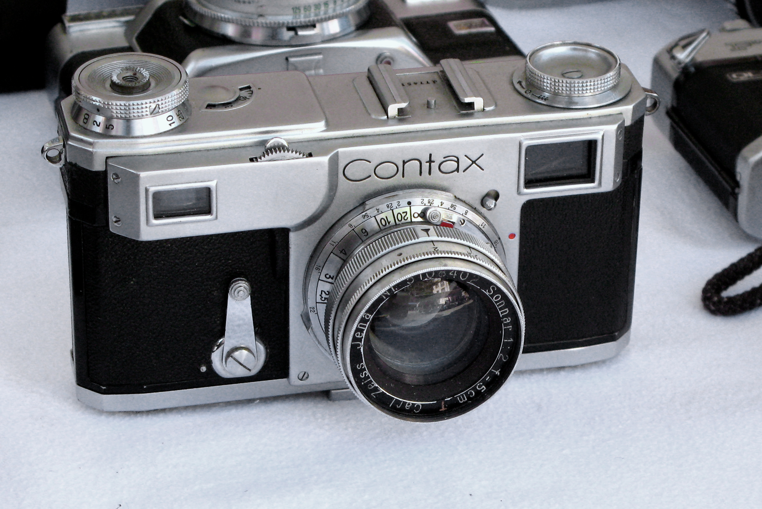 Contax II Note: the lens is not original by Carl Zeiss (Fake Russian-made)